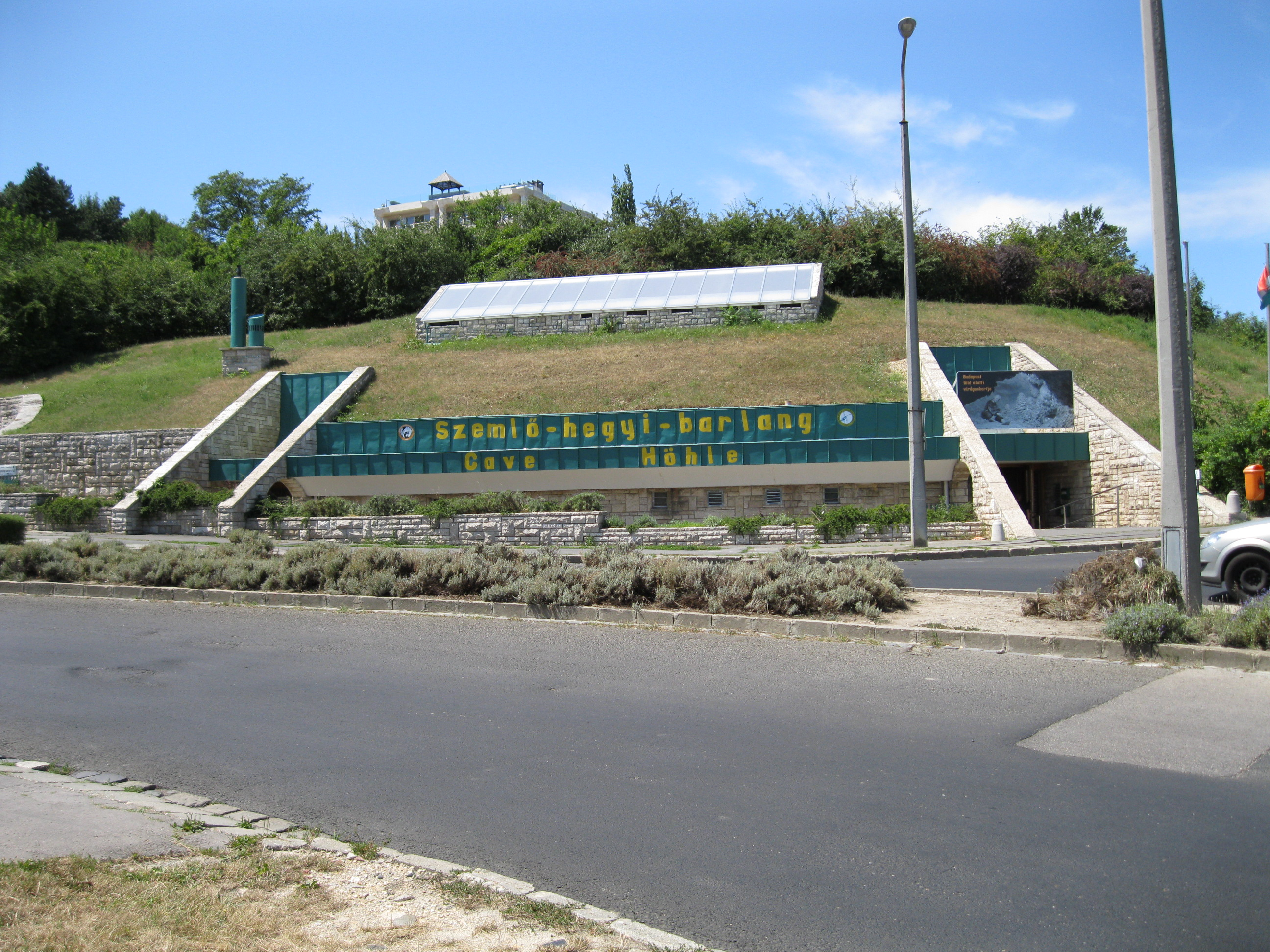 Budapest, entrance of the Szemlő-hegy Cave